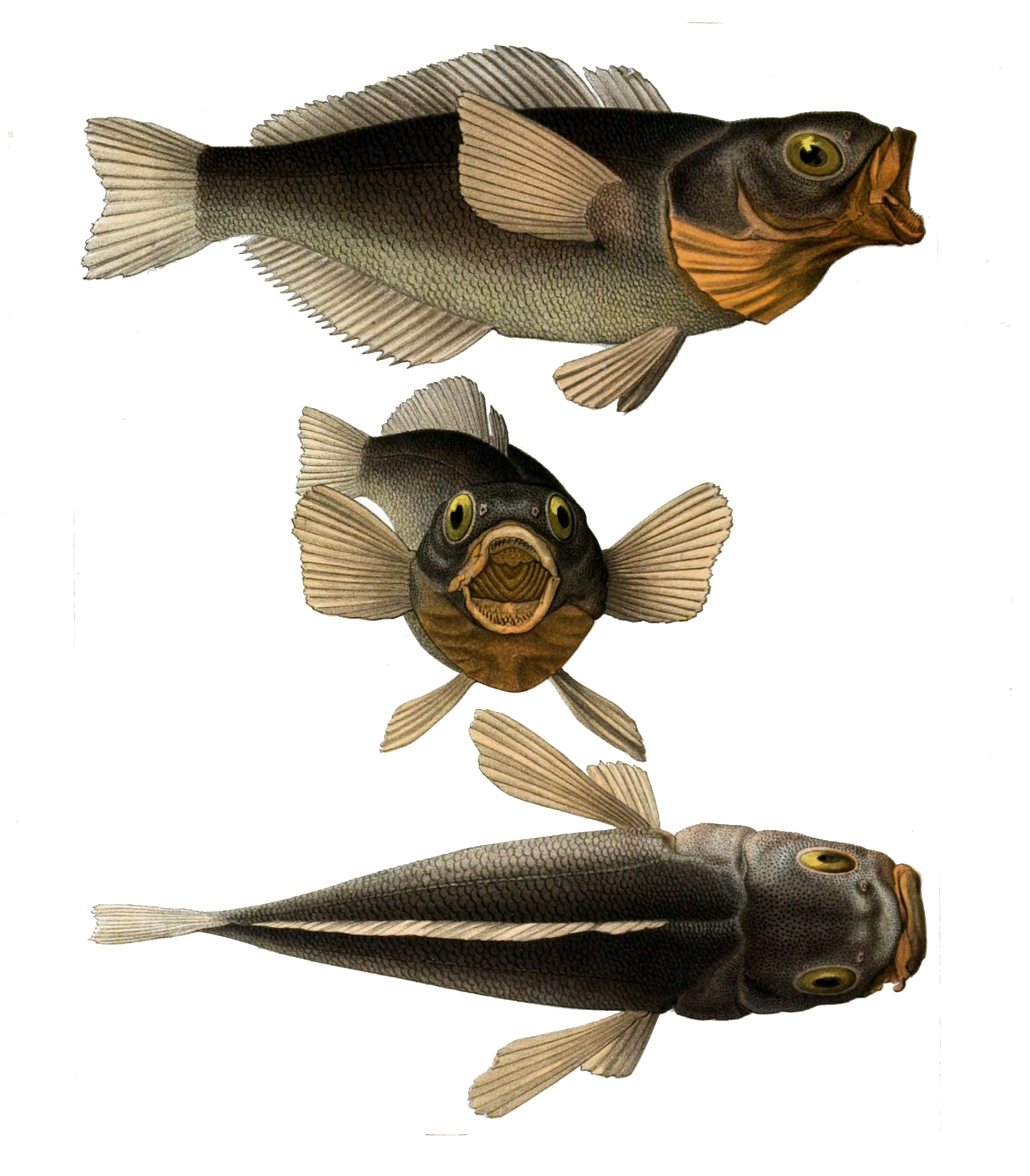 notothenia antarctica